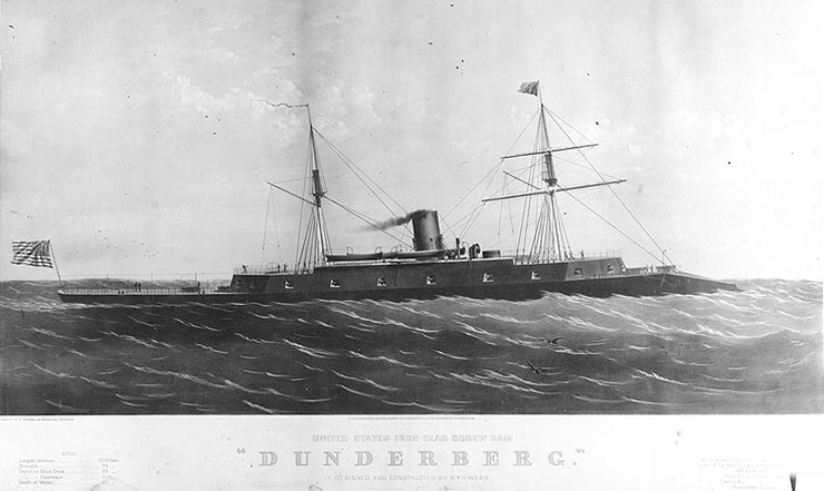 The USS Dunderberg never entered service with the US Navy. It was returned to its builders and then sold to France in 1867 as the Rochambeau